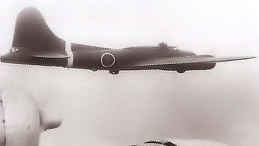 Captured Boeing B-17E Fortress 41-2471 formerly of 7th Bomb Group after being repaired by Japanese in 1942. The aircraft crash landed on 8 Feb 1942 at Djokjakarta, Java and was abandoned. Aircraft was captured and repaired by Japanese and used for training to develop fighter tactics against USAAF B-17s being used in the Pacific. Eventual fate of this aircraft is unknown